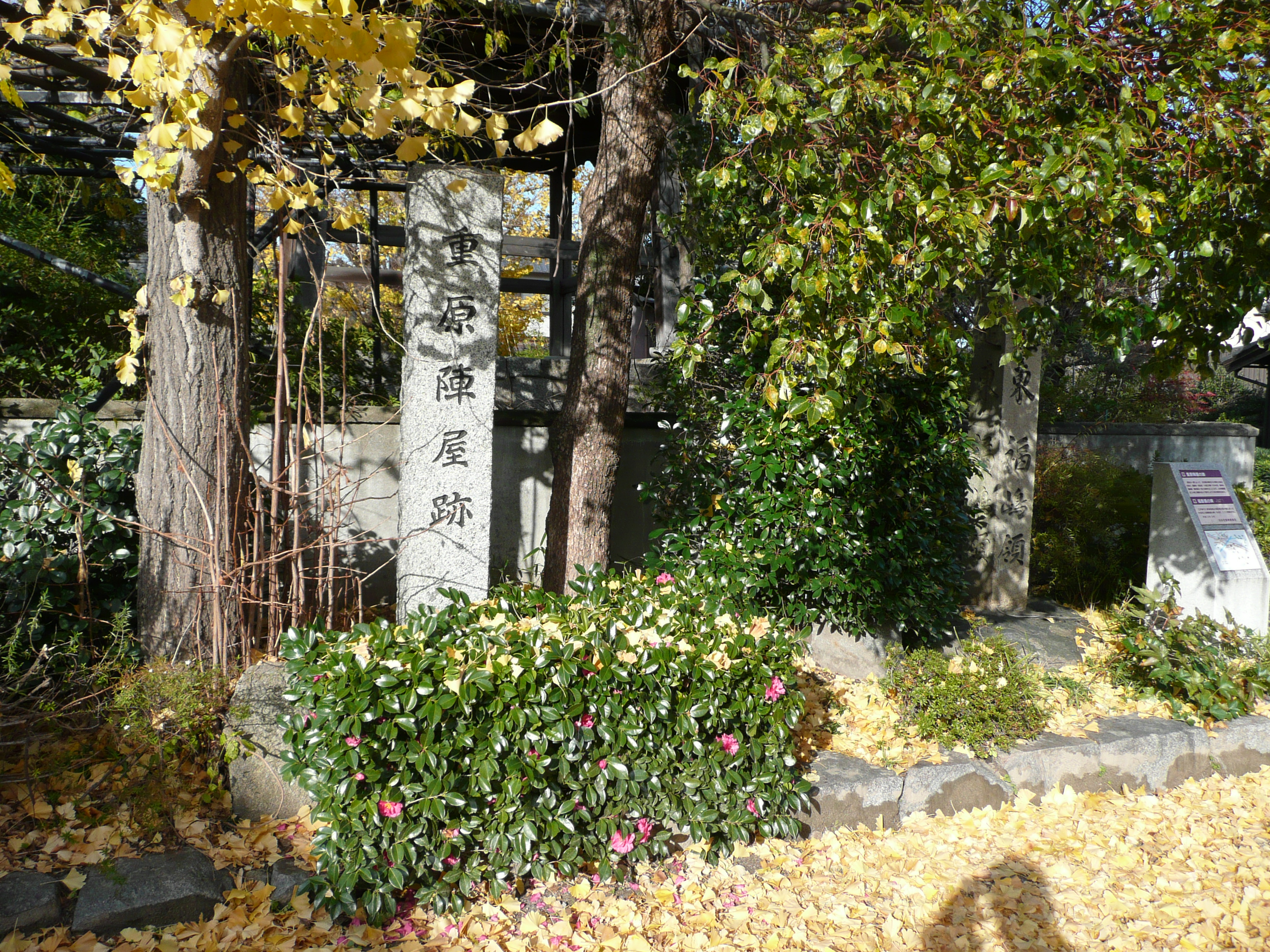 愛知県刈谷市の願行寺にある、重原陣屋の石碑